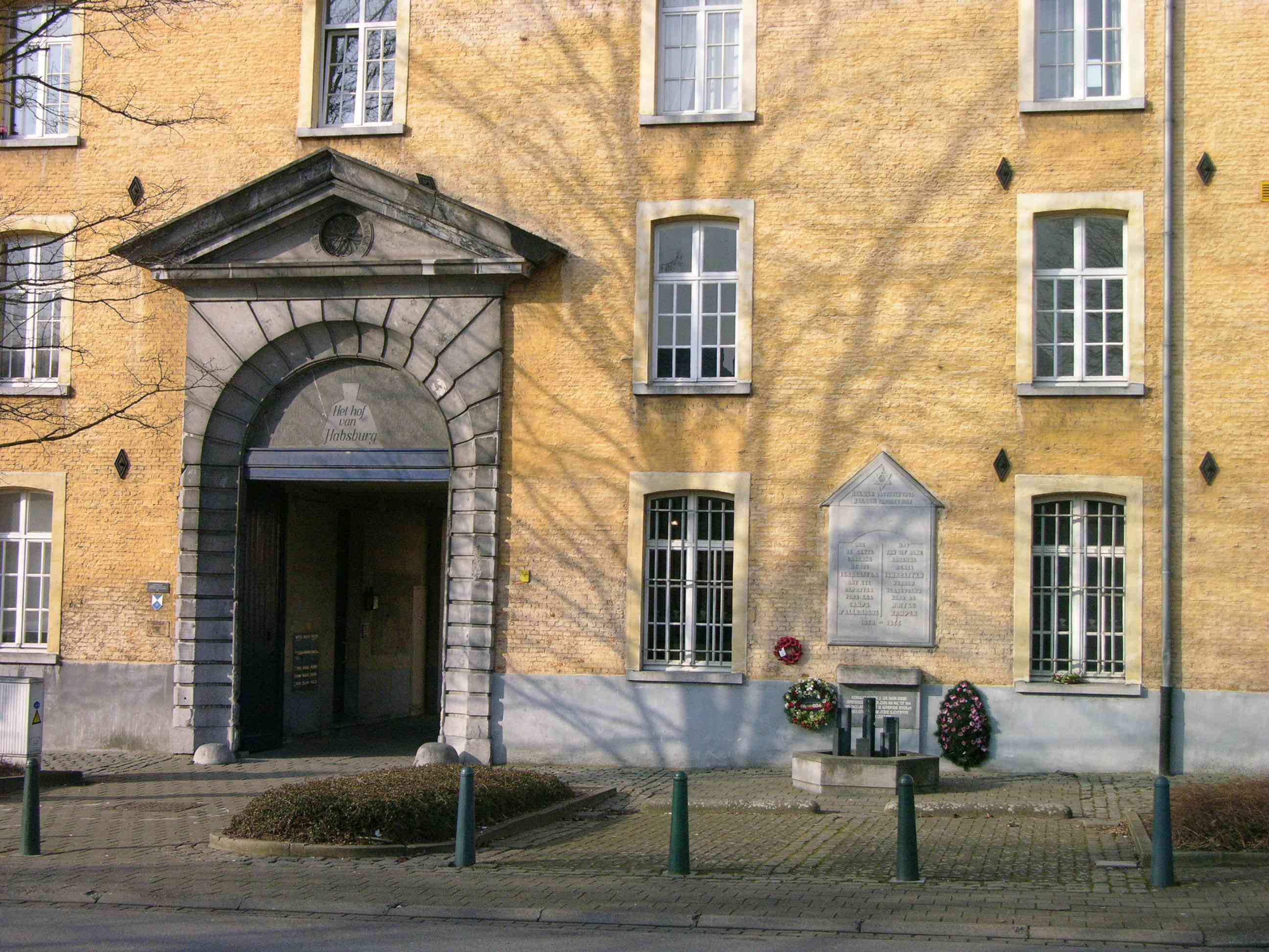 Entry of the old Dossin's barracks in Mechelen ('SS-Sammellager für Juden' between 1942-1944) (Belgium)